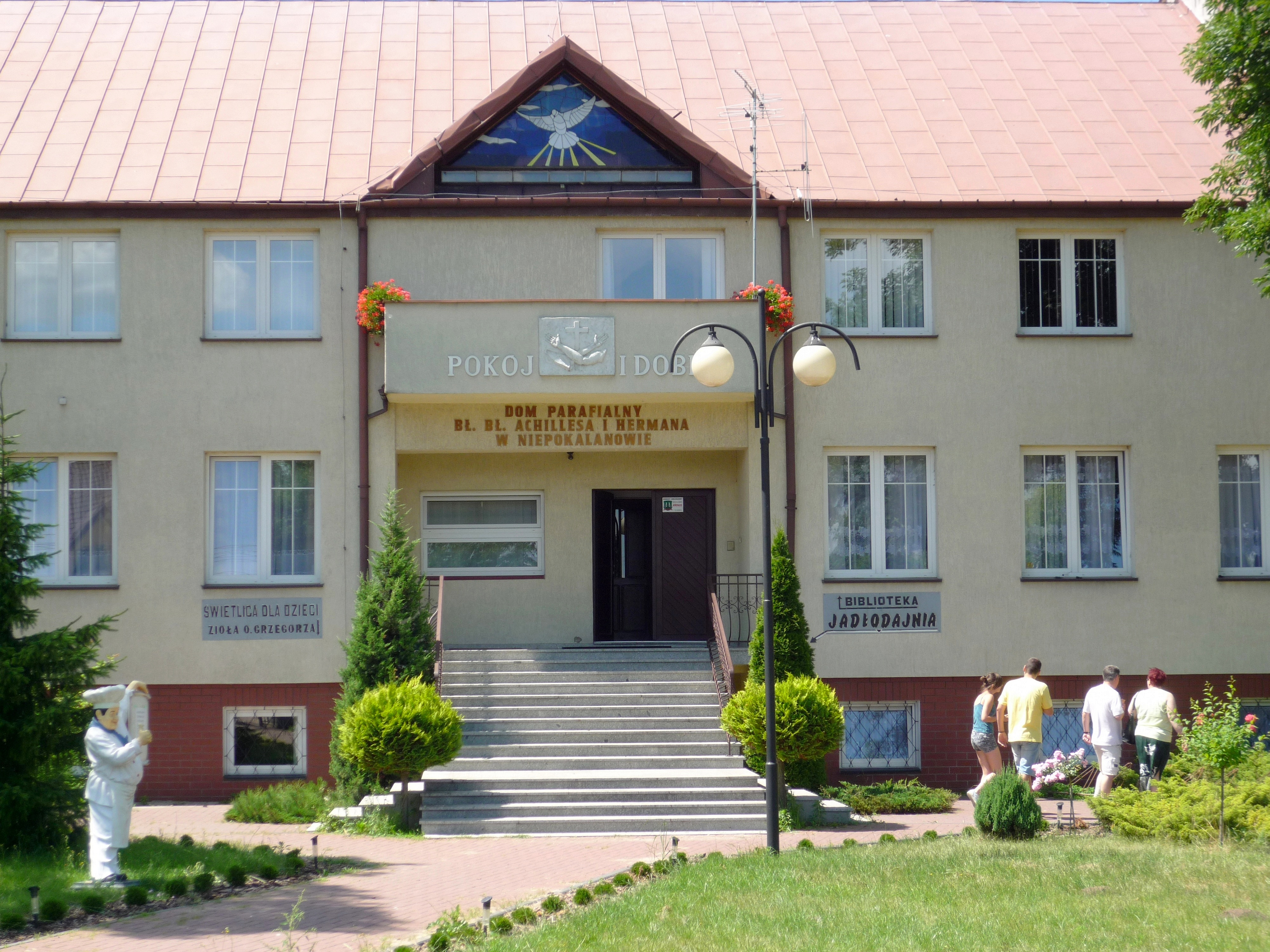 Parochial House in Niepokalanów, Poland